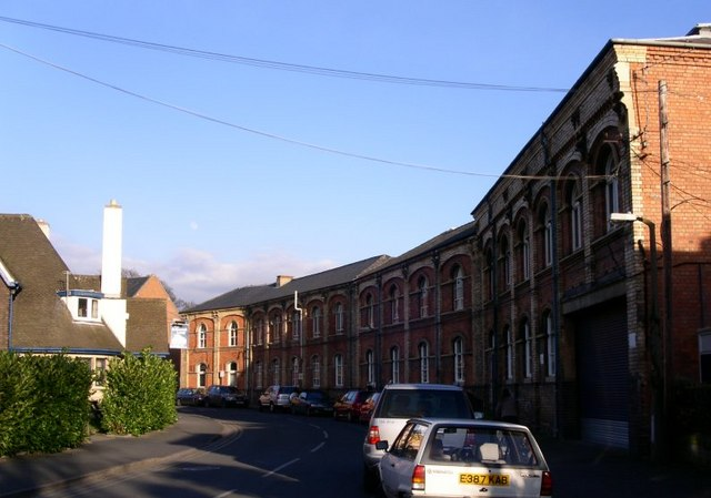 Royal Worcester's frontage on Severn St (formerly Frog Lane) The redevelopment planned for the factory site should leave this scene unchanged and the huge number of new residents will be welcome business for the Salmon's Leap that has been sorely short of custom at lunchtimes since the workers were no longer required. The roller shutter door is said to be being converted to access onto the site.